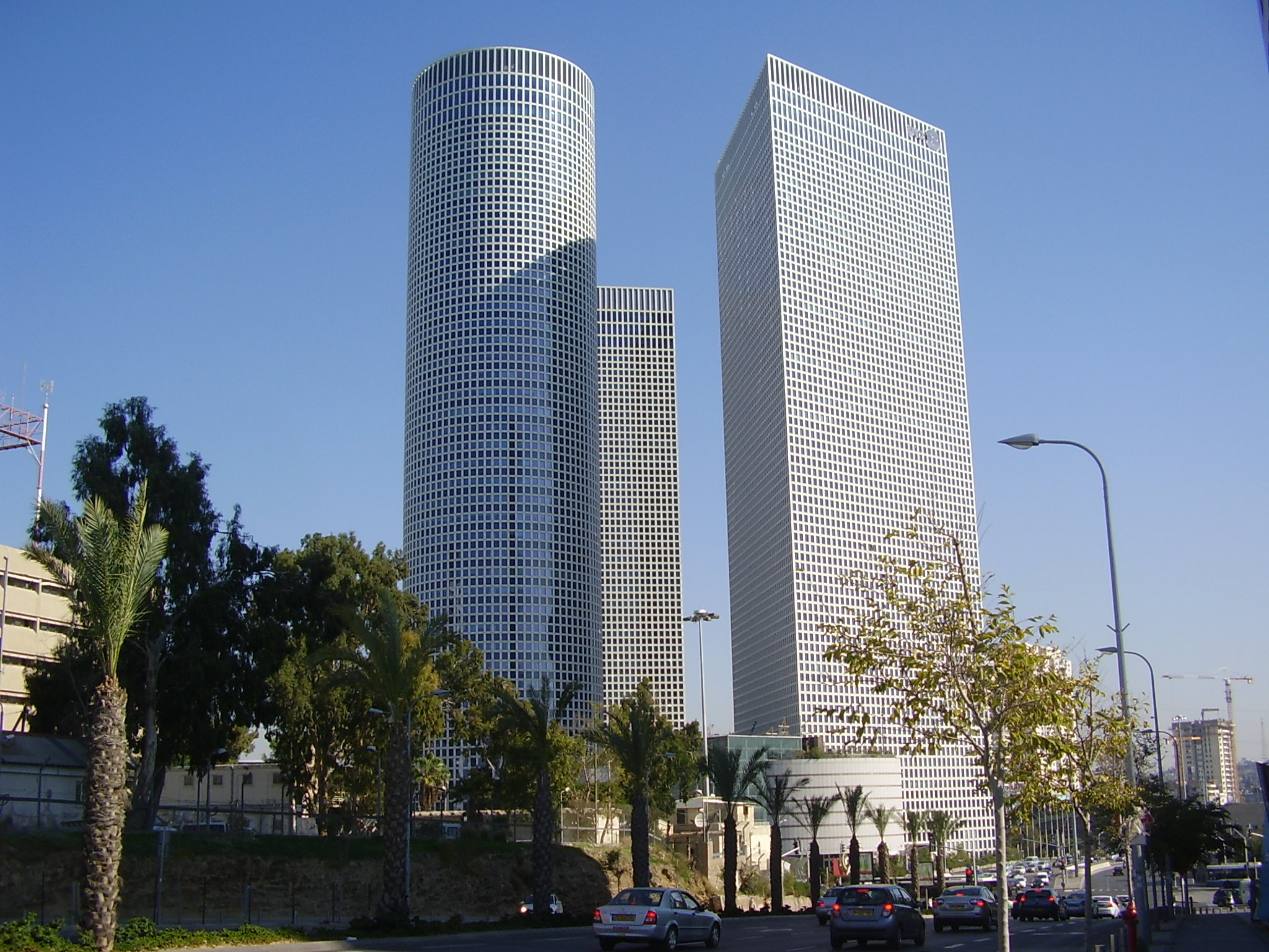 Azrieli Towers in Tel Aviv